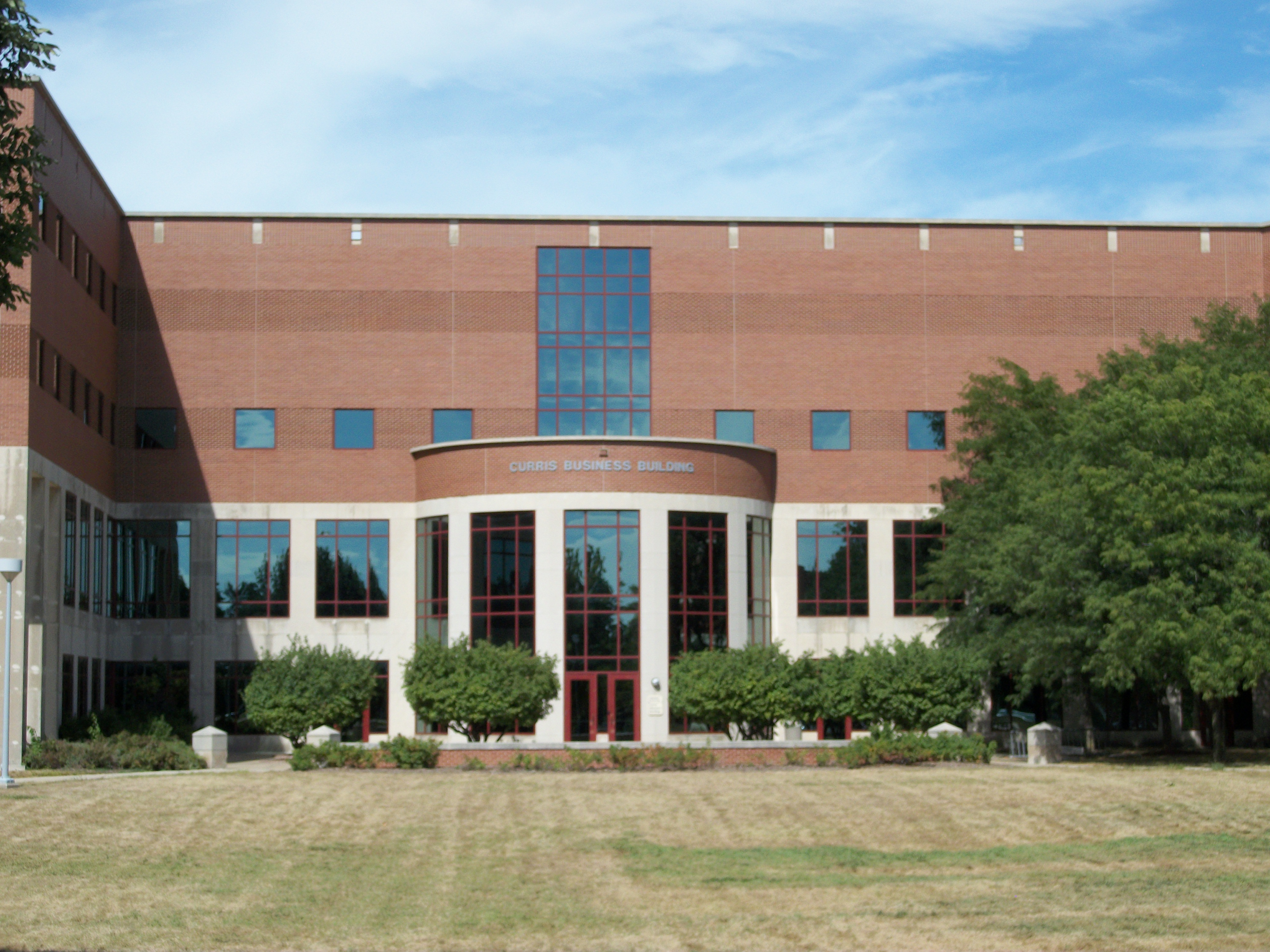 Curris Business Building at University of Northern Iowa